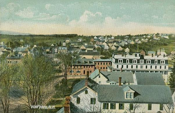 Bird's-eye View, Wolfeboro, NH; from a 1909 postcard.